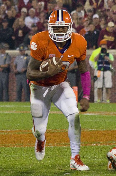 Clemson v. Florida State - 19 October 2013